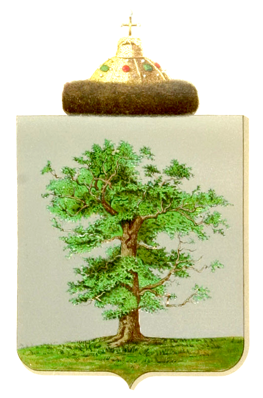 Coat of Arms of family Starodubski